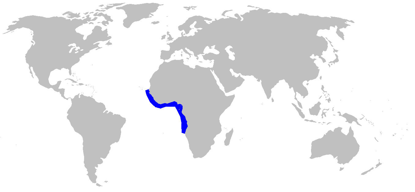 Distribution map for Leptocharias smithii